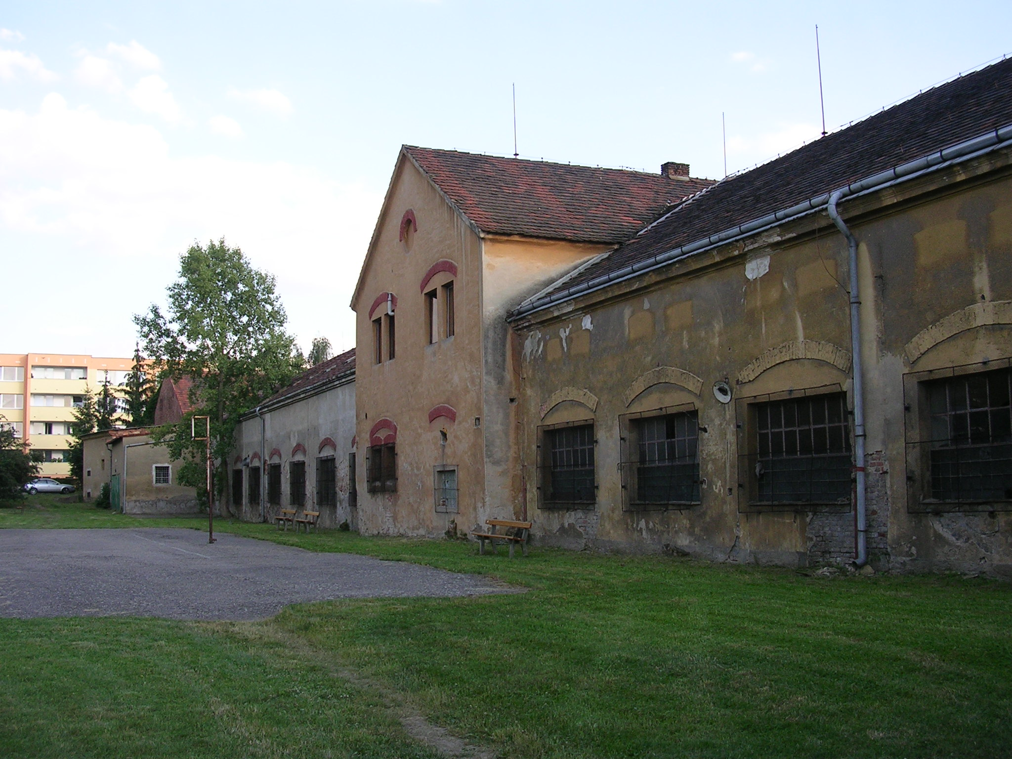 Malešice, Prague, the Czech Republic.